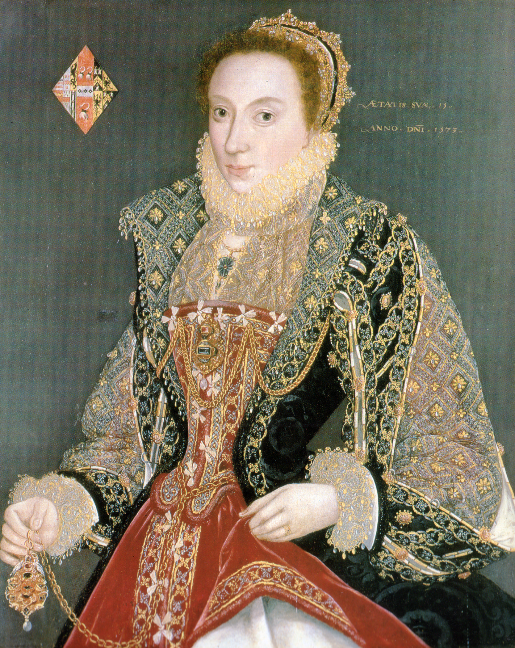 Mary Martin (d.1574) daughter and co-heiress of Sir Roger Martyn, Lord Mayor of London, and second wife of Alexander Denton (1542-8 Jan 1576) of Hillesden in Buckinghamshire. Three-quarter-length young girl to half-left, her chestnut hair in an elaborate jewelled hair band, wearig a lace ruff collar, a black damask surcoat with gold embroidery over a dull red velvet bodice and skirt, with a white underskirt; she holds in her right hand a pendant of diamonds and rubies in an elaborate enamel setting; inscribed, upper right: AETATIS SUAE 15 / ANNO DNI 1573. Sir Roger Martyn married twice: firstly to Lettice Pakington who died 23 December 1553; his second wife was Elizabeth Castlyn (mother of Mary Denton). Coat of arms, upper left (dexter, a quarterly of six coat for Denton of Hillesden impaling, centre, Martyn of London, impaling, sinister, a quartered coat for Castelin of London), per [1] ??? However, these do not appear to be either the arms of Denton (Argent, two bars gules in chief three cinquefoils of the second) nor her father's arms, "Sir Roger Martyn, Lord Mayor of London, 1567": Argent, on a chevron azure between three trefoils slipped per pale gules and vert as many bezants.[1]. The central arms, which should be those of the husband/father, show Gules, a fess between three swan heads and necks erased argent (Martyn). More research needed. See The visitation of London in the year 1568. Taken by Robert Cooke, Clarenceux king of arms, and since augmented both with descents and arms, p.2, pedigree of Martyn; p.39, arms of Castelyn[2]. Arms should be: Martyn impaling dexter Packington, sinister Castelyn, for the two wives of Sir Roger Martyn. Arms of the Castelyn family of London Arms of Roger Martyn Lord Mayor of London Packington arms